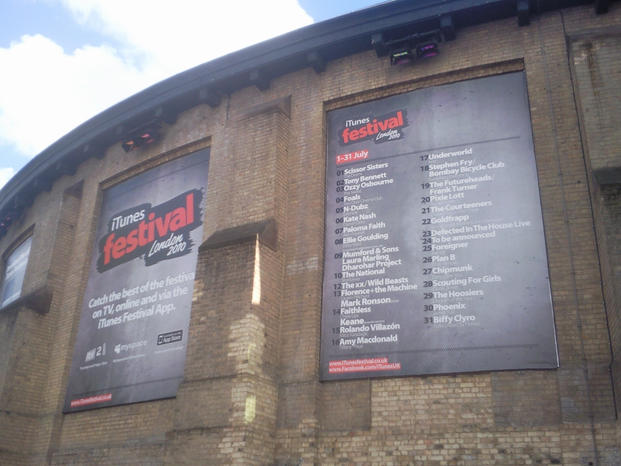 The Roundhouse, as pictured during the iTunes Festival 2010